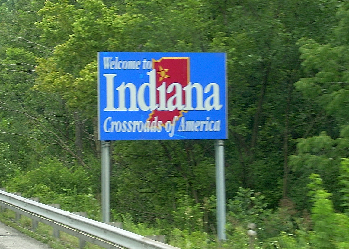 Indiana state welcome sign, along Interstate 70, entering from Illinois.